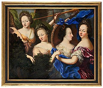 By Amalia von Königsmarck guess 1710